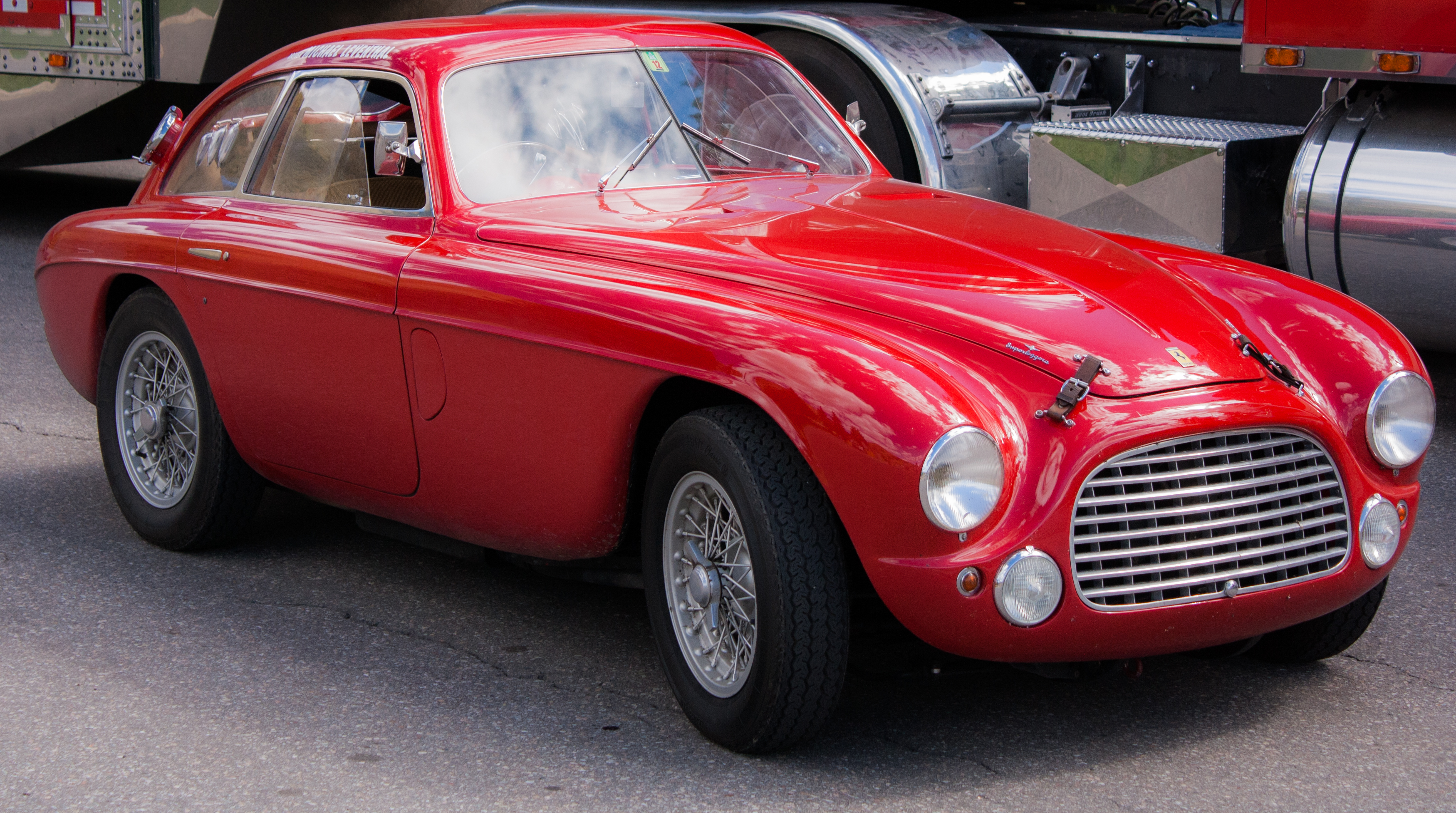 1950 Ferrari 166MM Le Mans Berlinetta by Carrozzeria Touring (chassis #0066M).[1] Auctioned in 2008 for 2.2 million USD.